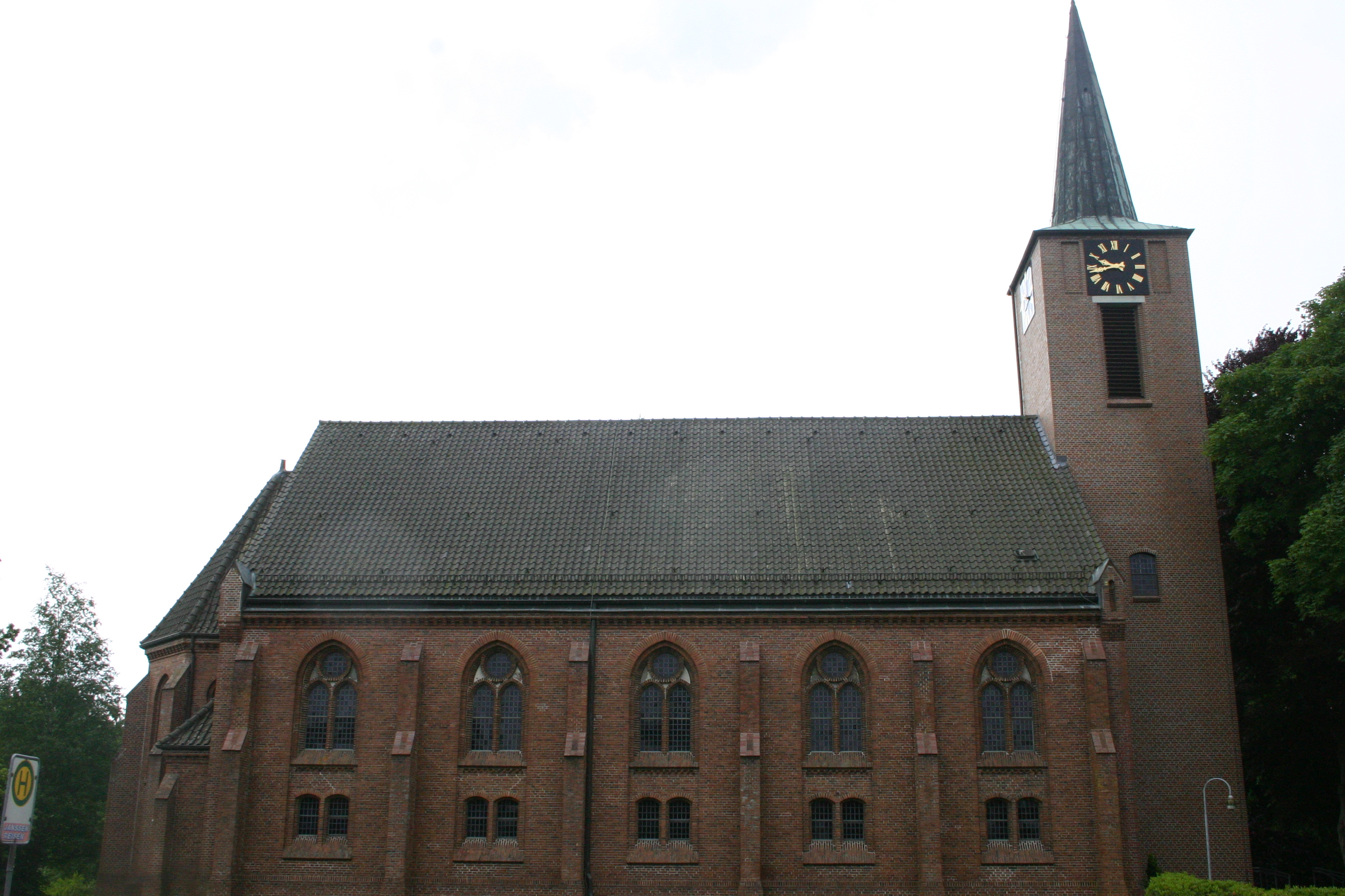 Historic Peter Church in Ostrhauderfehn, district of Leer, East Frisia, Germany